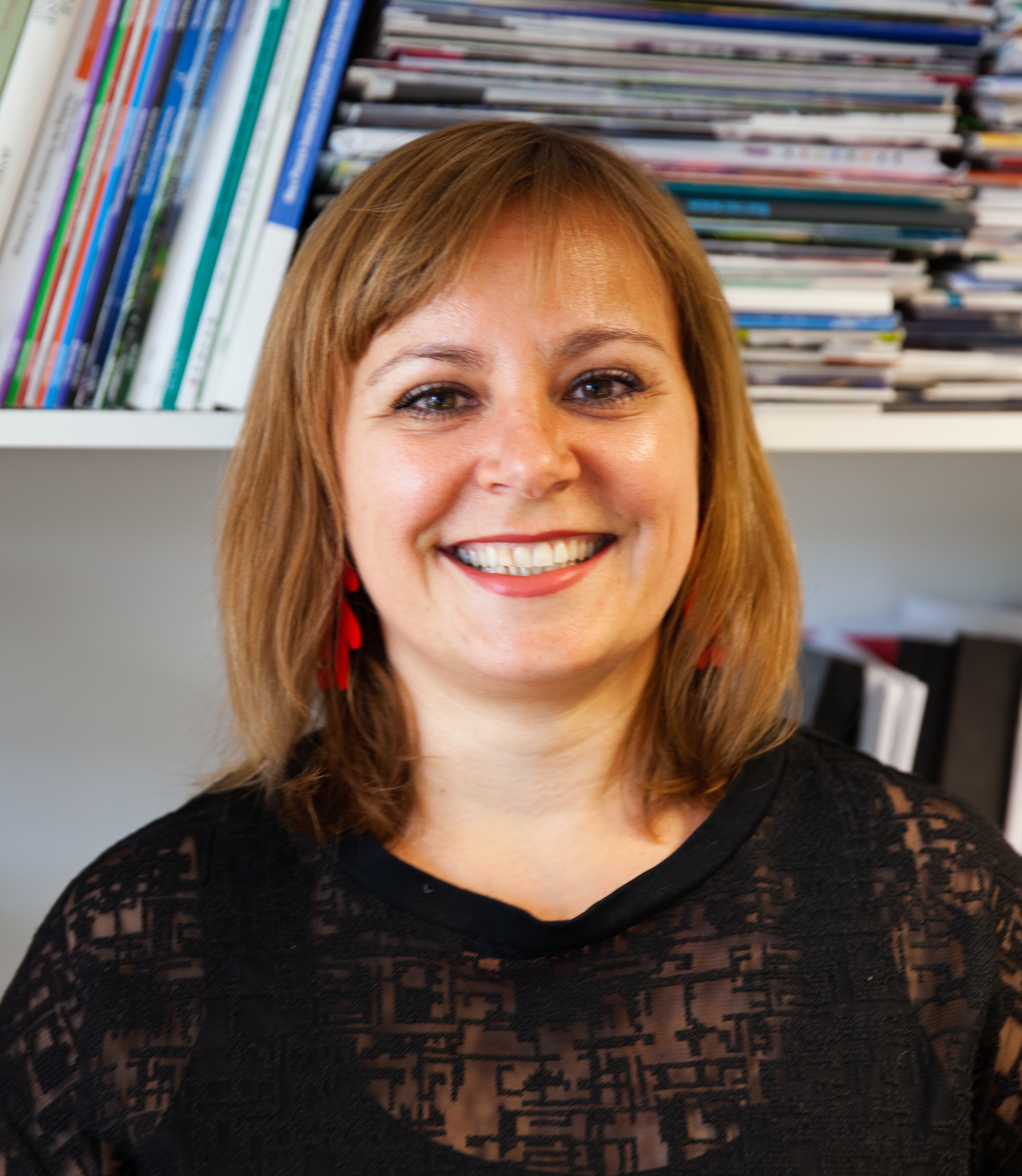 A picture of Magdalena Titirici in 2018.